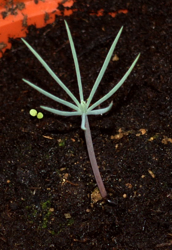 14 day old Pinus halepensis.